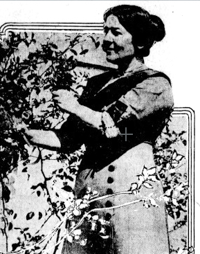 A young white woman, standing outdoors, amid foliage.